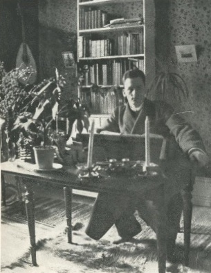 Swedish clergyman David Petander (1875-1914).